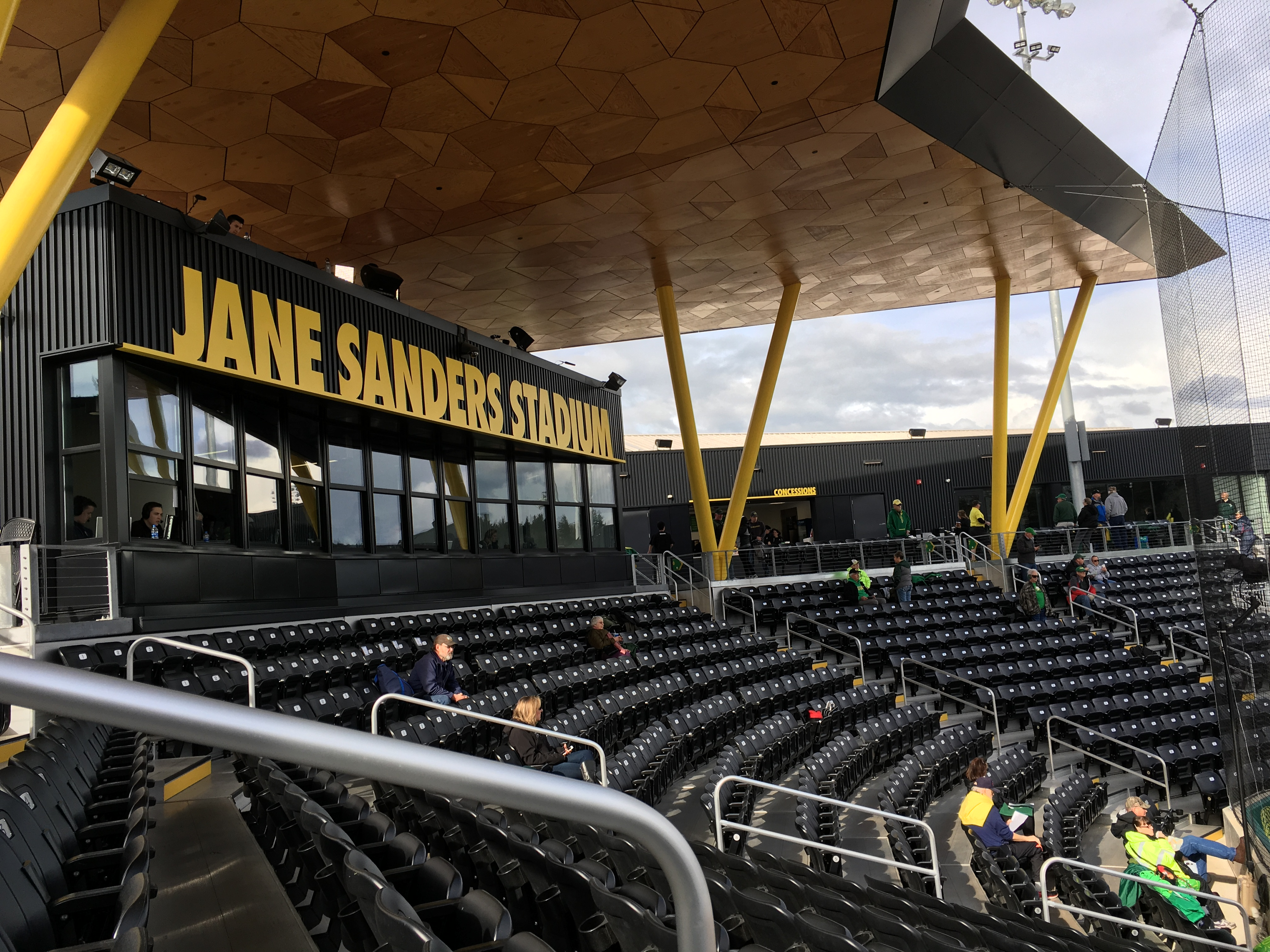 The overhead canopy of the stadium, a yellow “duck wing”, with an array of home plate-shaped wooden inlay, shelters about half of the permanent seats.